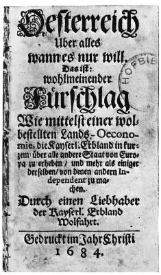 Title page of Philipp von Hörnigk's Österreich Über Alles, Wenn Sie Nur Will (Austria Over All, If She Only Will), 1684 edition. Text: Oesterreich Uber alles wann es nur will. Das ist wohlmeinender Fürschlag wie mittelst einer wolbestellten Lands-Oeconomie, die Kayserl. Erbland in kurzem über alle andere Staat von Europa zu erheben / und mehr als einiger derselben / von denen andern Independent zu machen. Durch einen Liebhaber der Kayserl. Erbland Wolfahrt. Gedruckt im Jahr Christi 1684